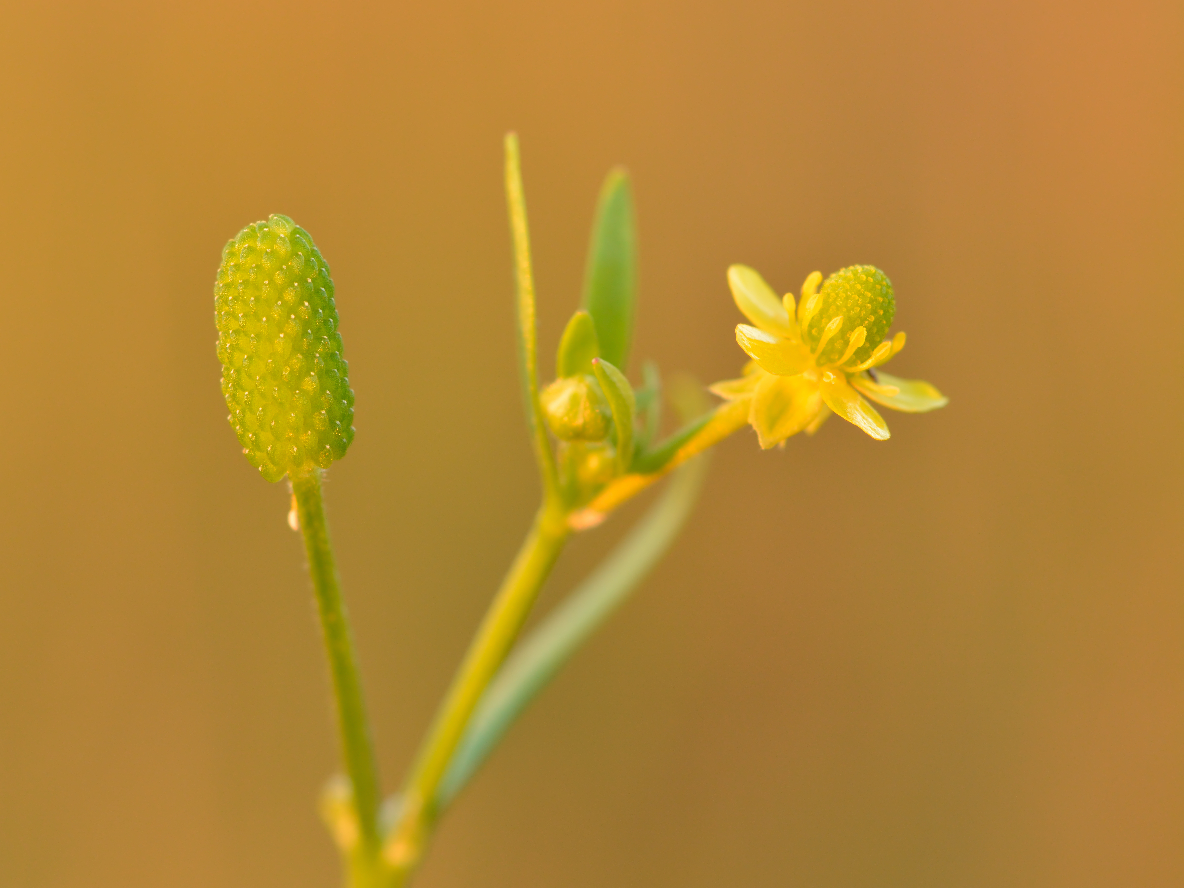 Ranunculus sceleratus - cursed buttercup in Keila, Northwestern Estonia.